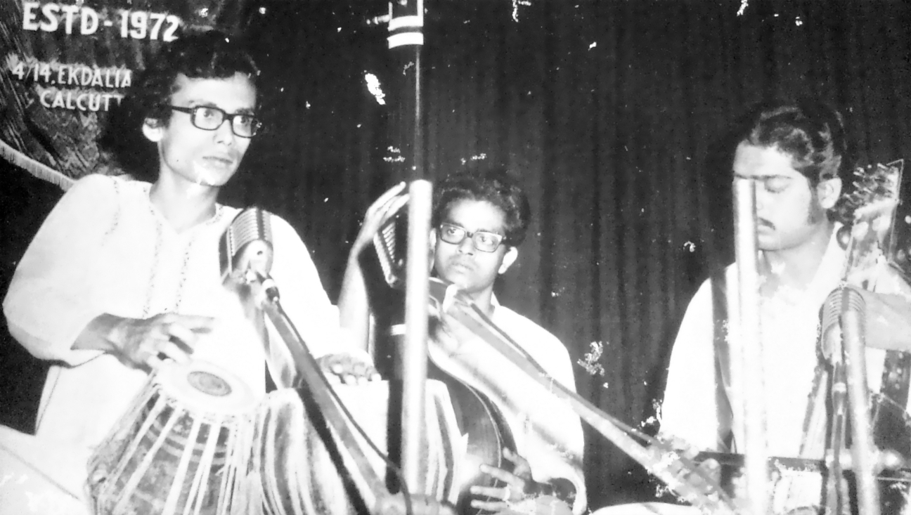 Pandit Chandra Nath Shastri on Tabla Accompanied by Pandit Ramesh Mishra with Sarangi, 1972 File Photo, Calcutta